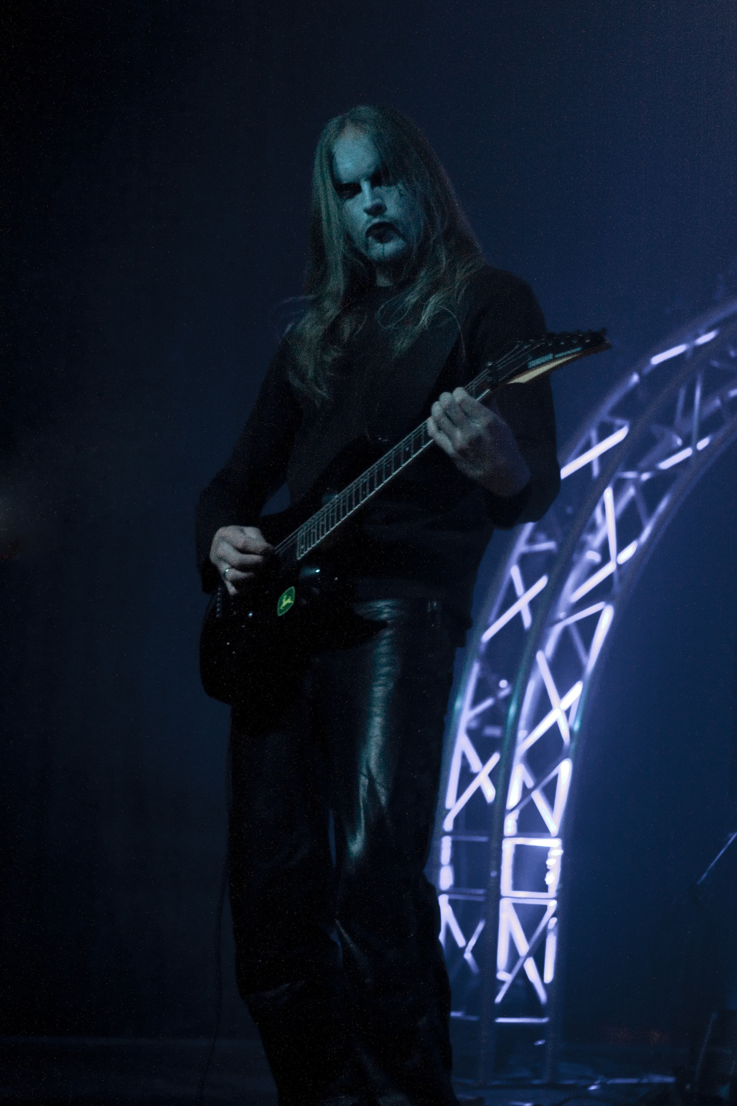 Lars Stokstad in Elemants of Rock.